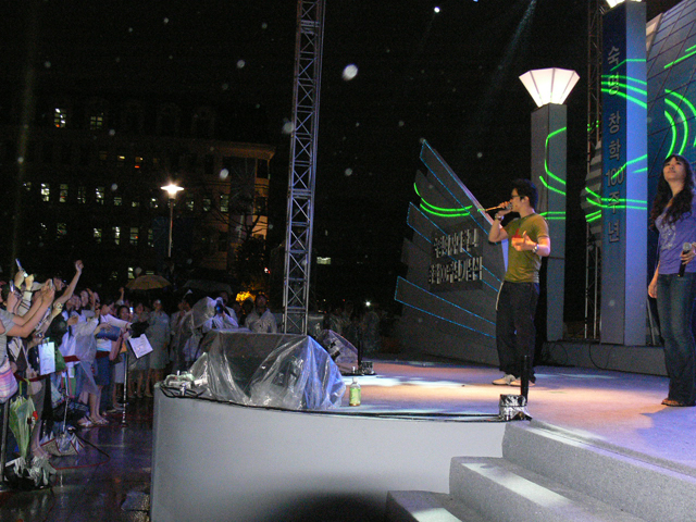 Alex and Horan in the centennial ceremony of Sookmyung Women's University